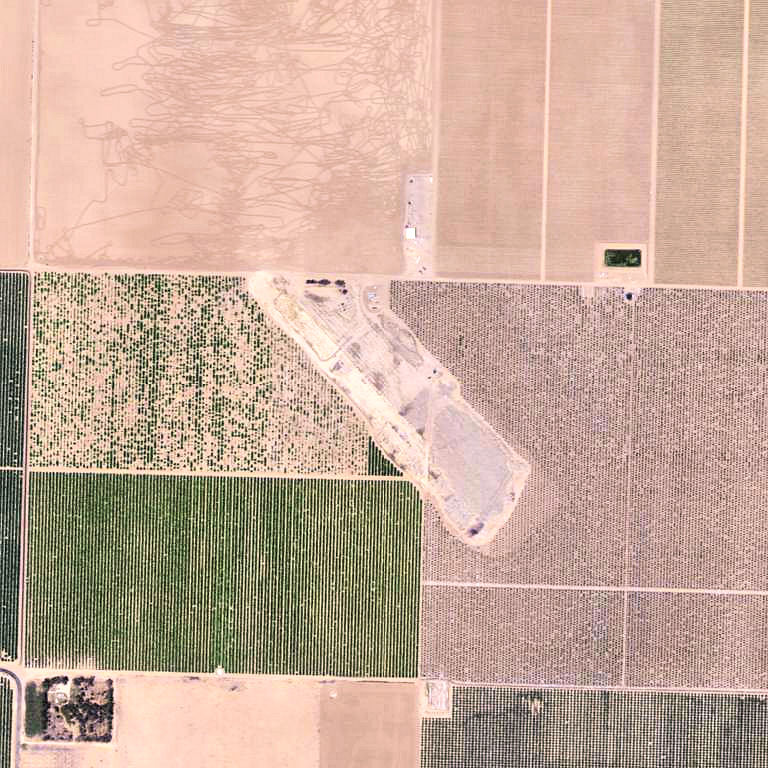 USGS orthophoto of Gardner Army Airfield in California, United States